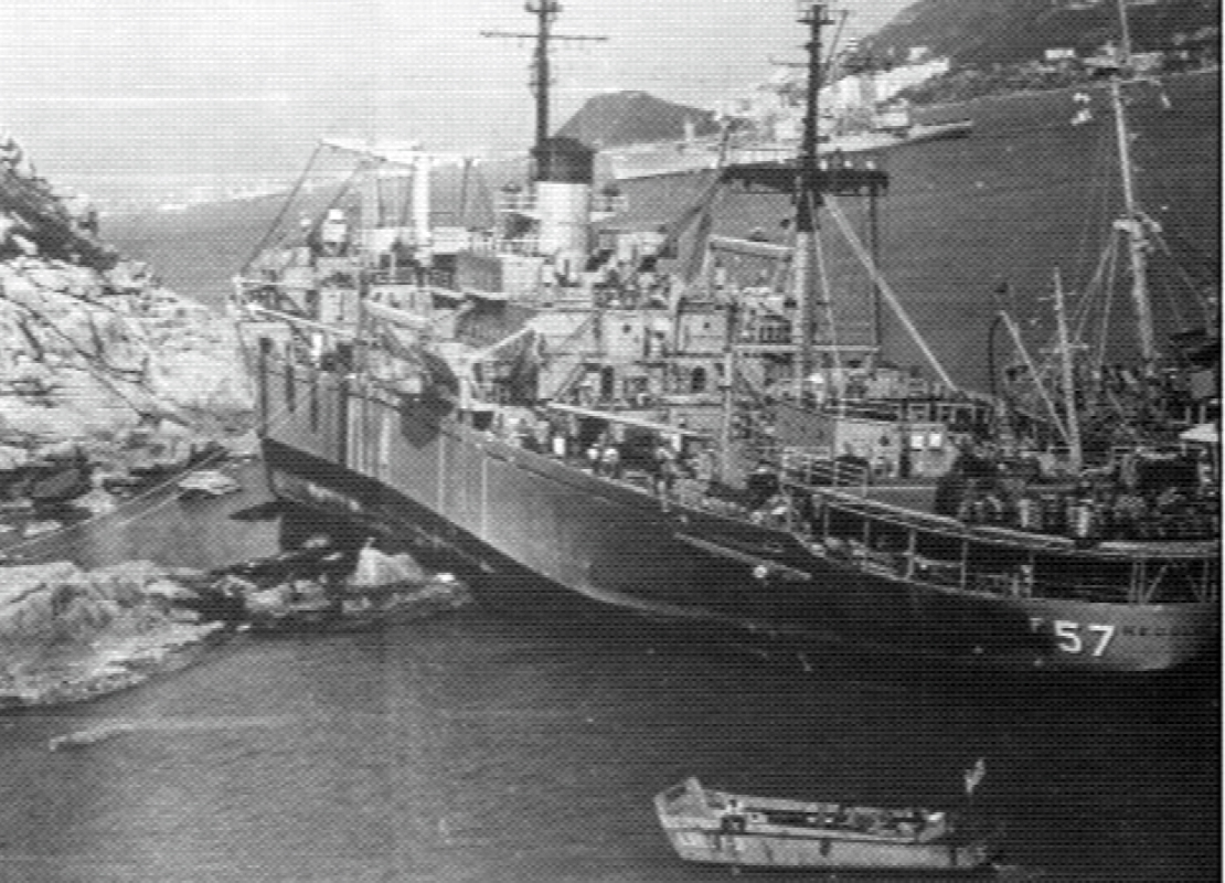 The U.S. Navy stores ship USS Regulus (AF-57) aground in the harbour area of Hong Kong with rocks penetrating the hull as a result of Typhoon Rose (August 1971). This incident initiated the requirement for assistance in severe weather port decision-making.